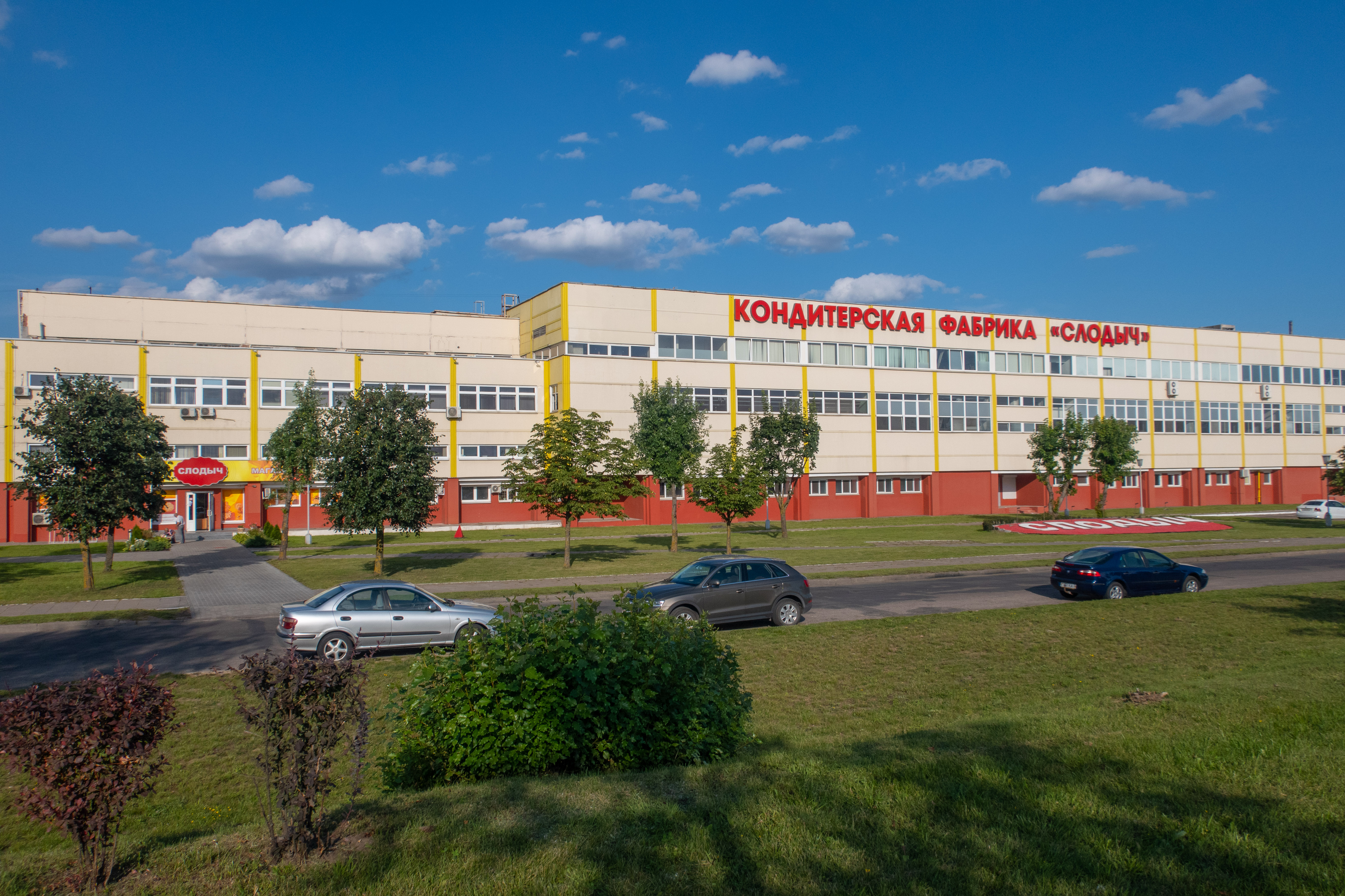 Slodyč (Slodych) confectionery factory. Minsk, Belarus